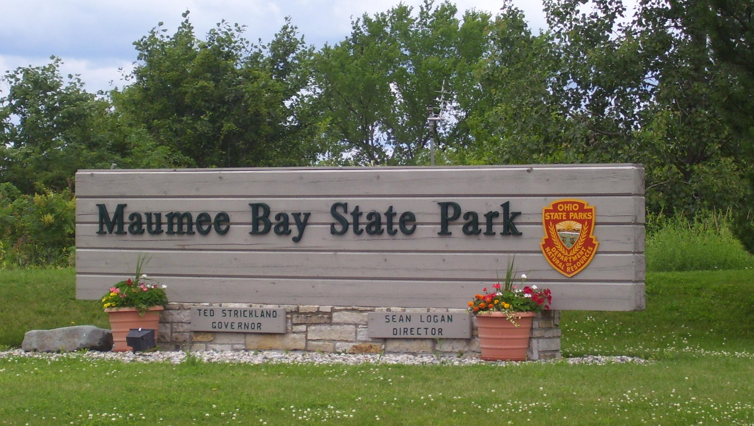 The entrance sign at Maumee Bay State Park